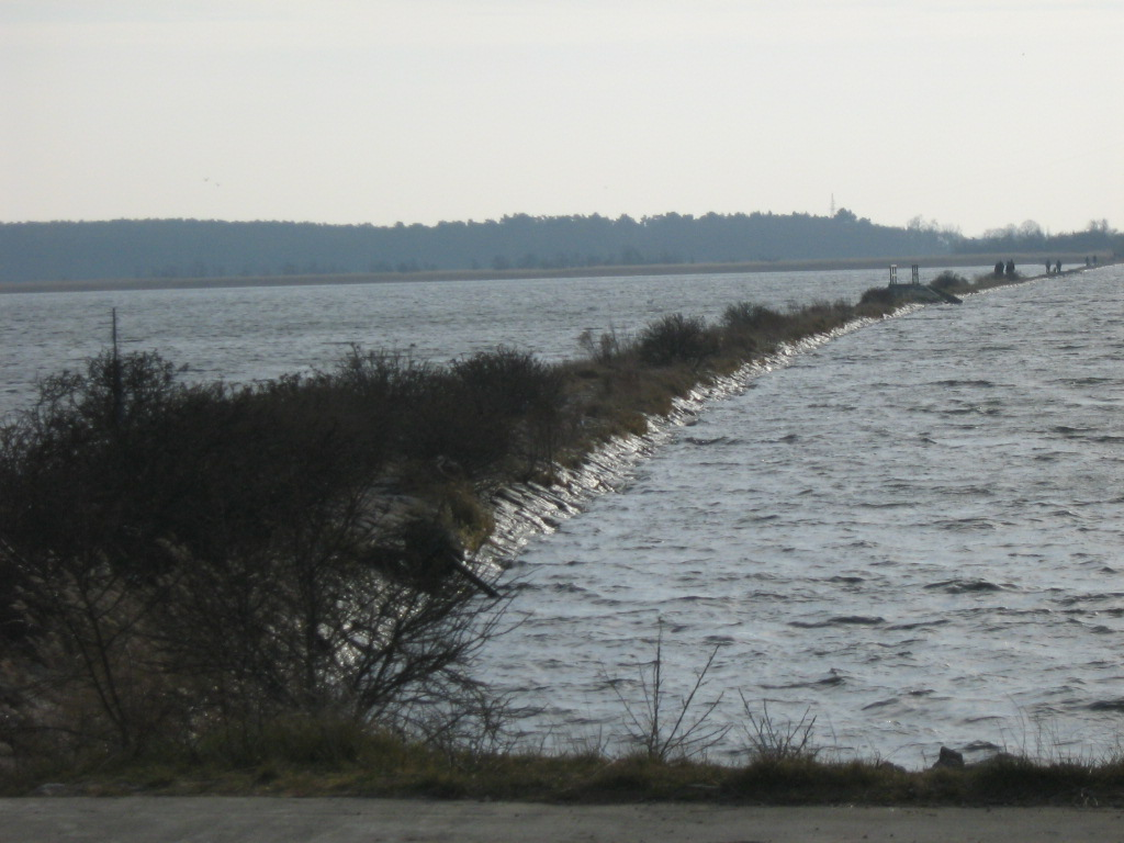 Dike between Vistula river (right side) and Ptasi Raj lake (left side). Gdańsk.